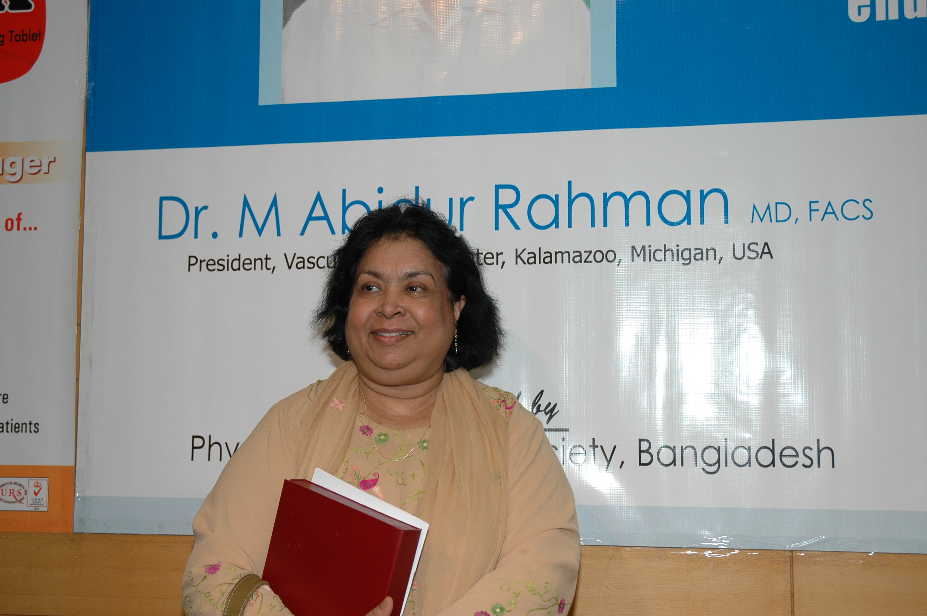 Bir Protic Sitara Begum